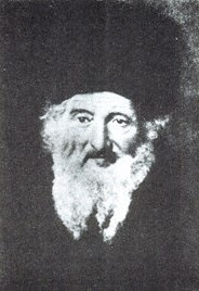 Portrait of Rabbi Pinkas Menakem Justman, Piltzer Rebbe.